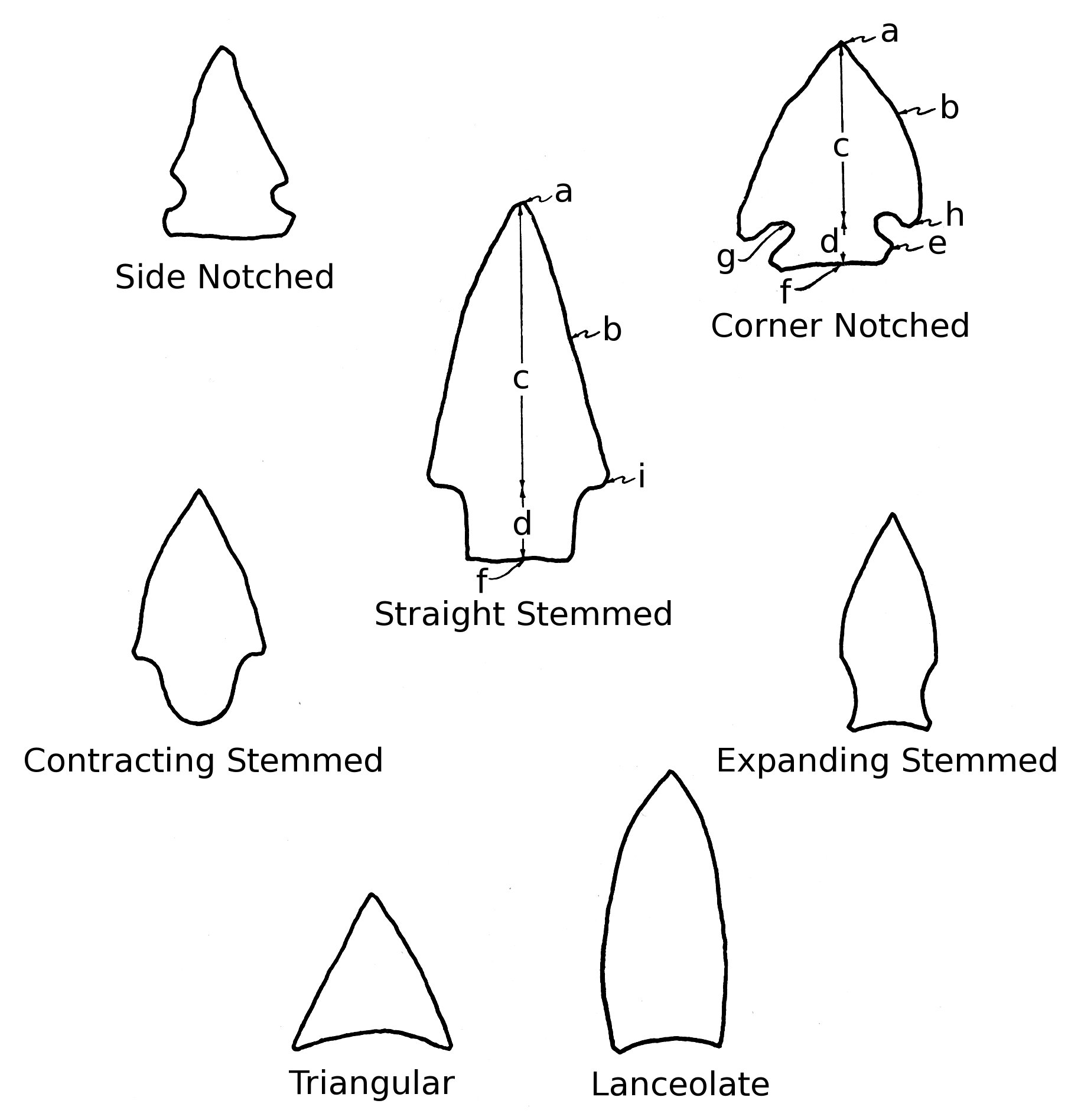 Projectile point terminology. Adapted from "A Typology and Nomenclature for New York Projectile Points", William A. Ritchie, New York State Museum Bulletin #384.